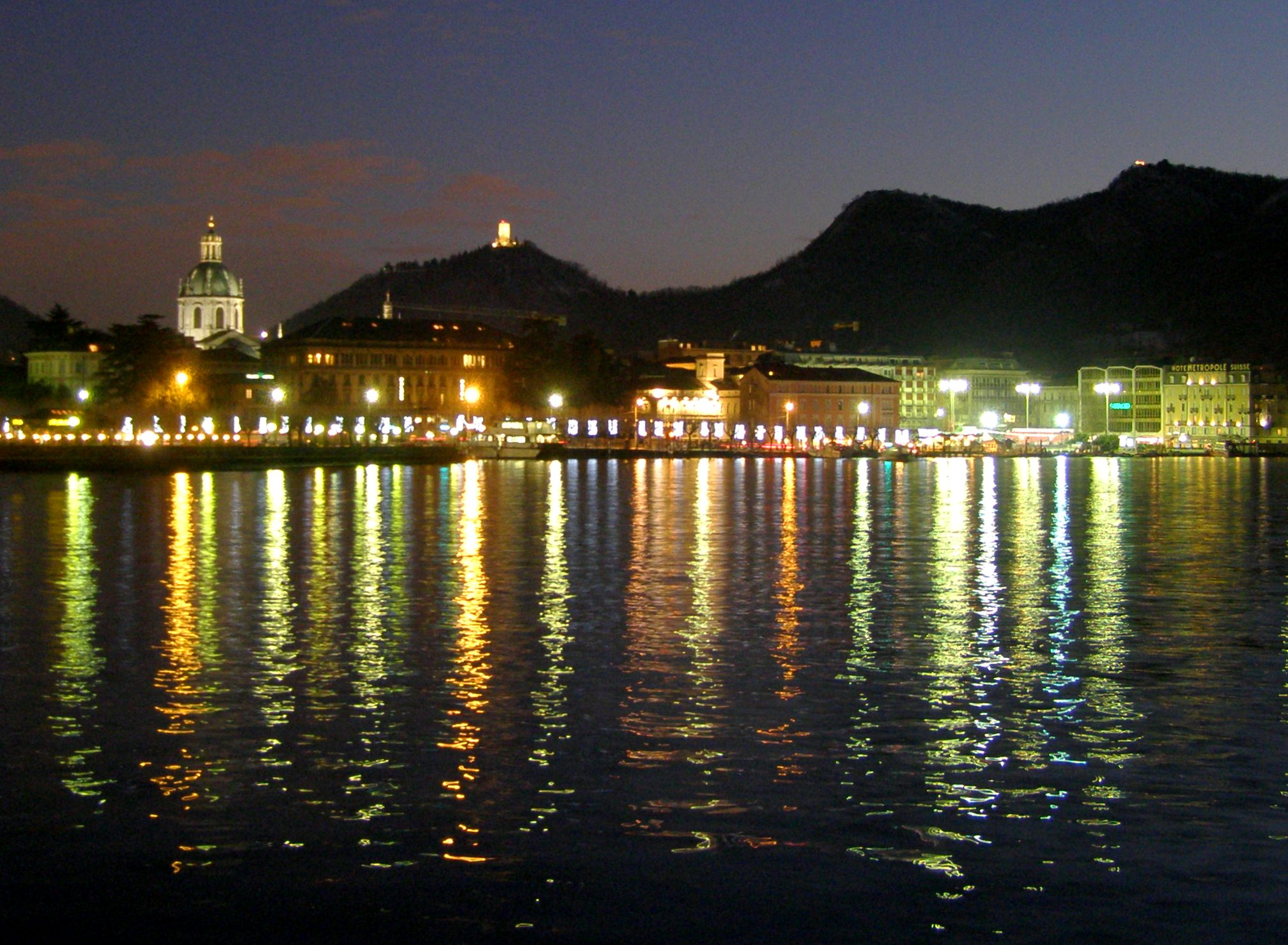 Reflections of Como lakefront by night